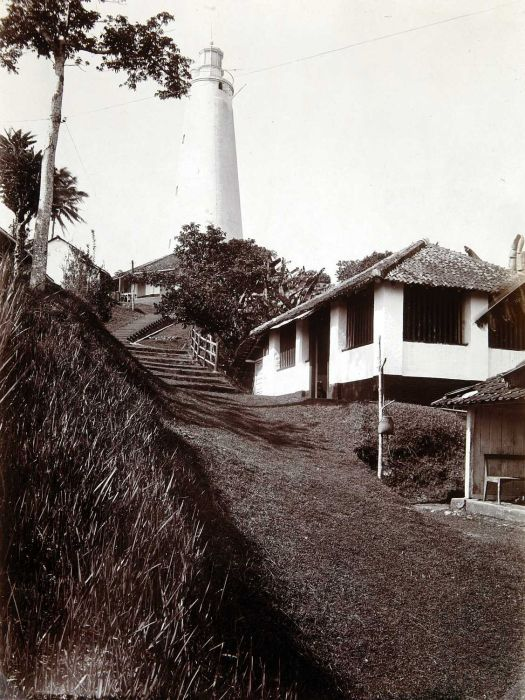 Road leading to a lighthouse on top, Dutch East Indies